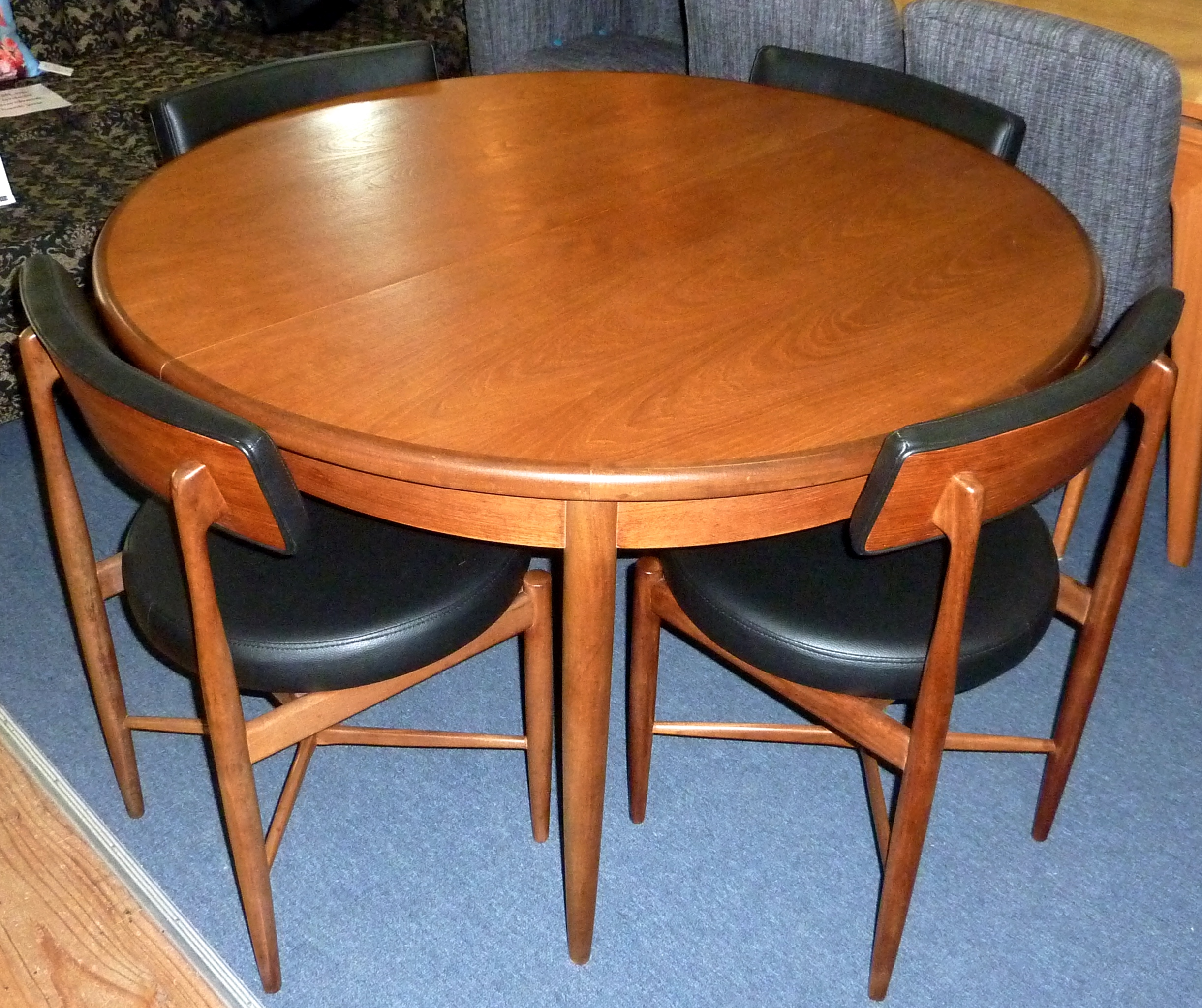 Koford Larsen-designed Dining Setting by G Plan Circa 1960s Circular table with 5 chairs